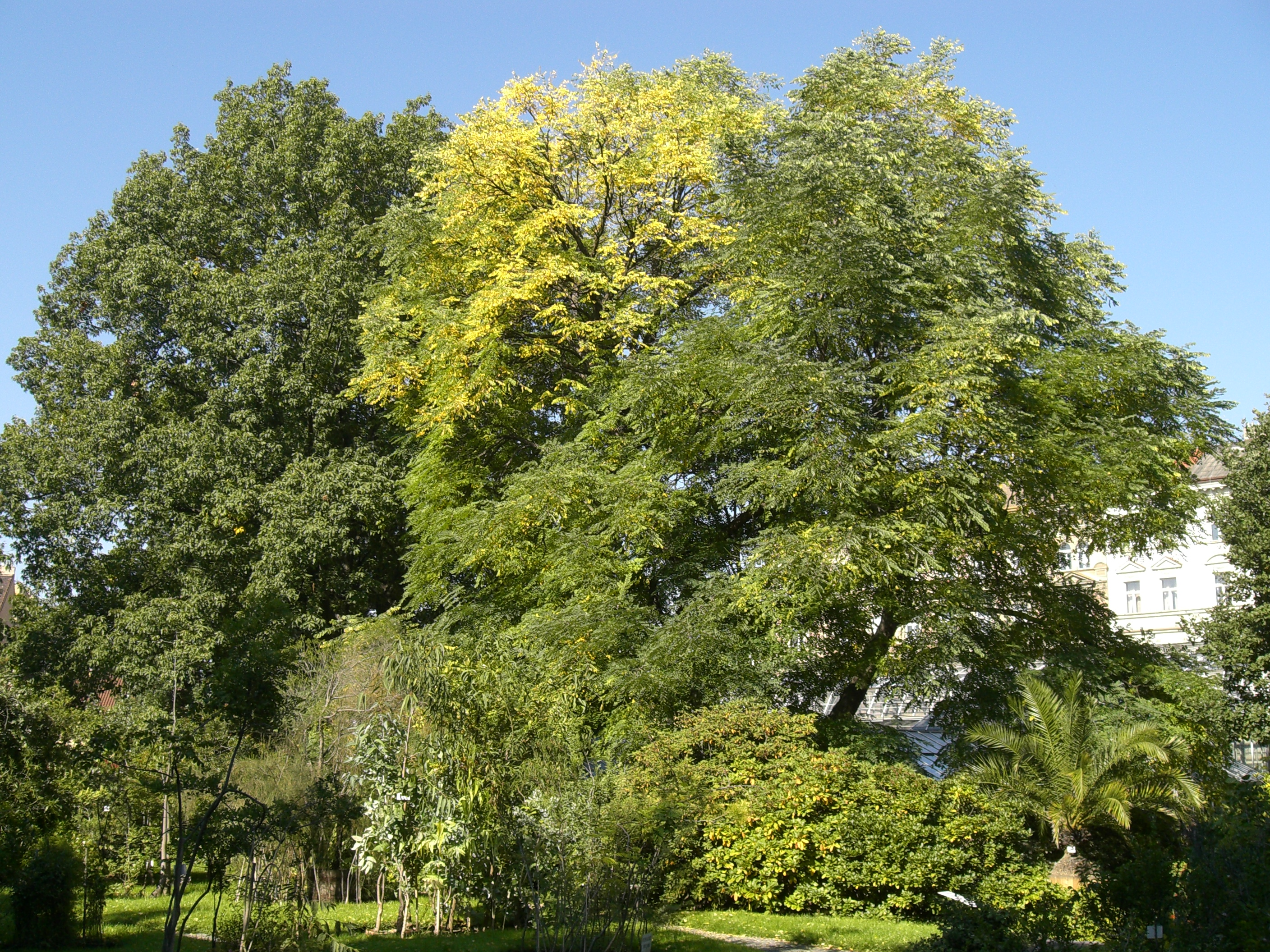 Category:The Botanical Gardens of Charles University in Albertov, Czech Republic 50°4′16.08″N 14°25′16.85″E / 50.0711333°N 14.4213472°E